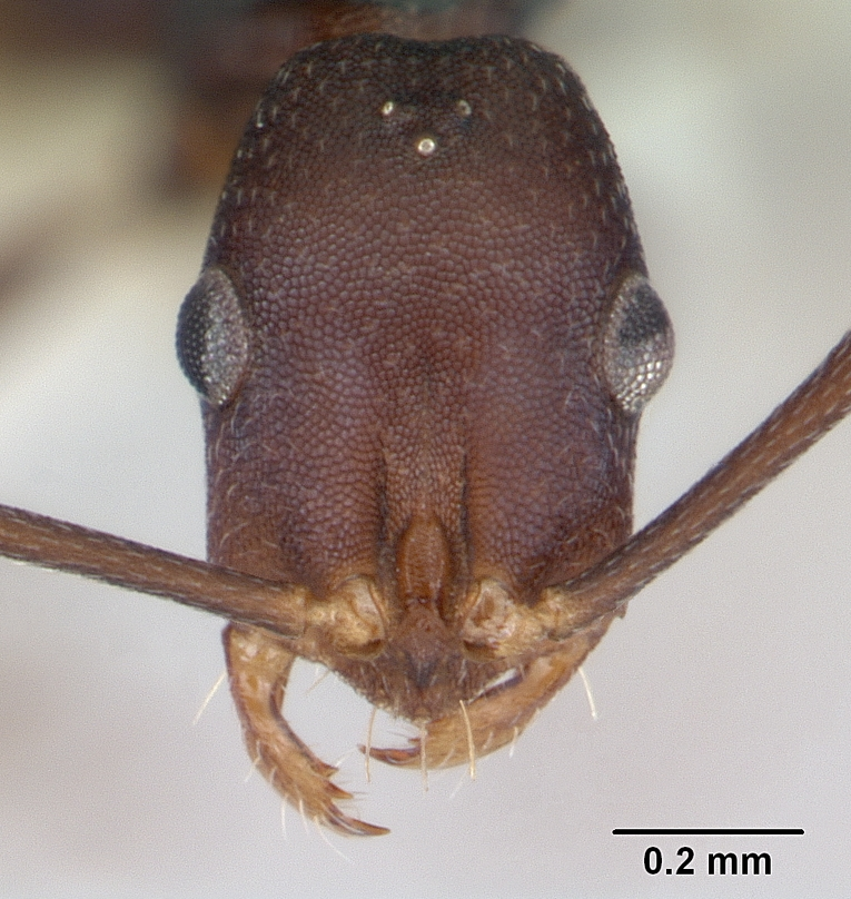 Head view of ant Melophorus majeri specimen casent0173923.